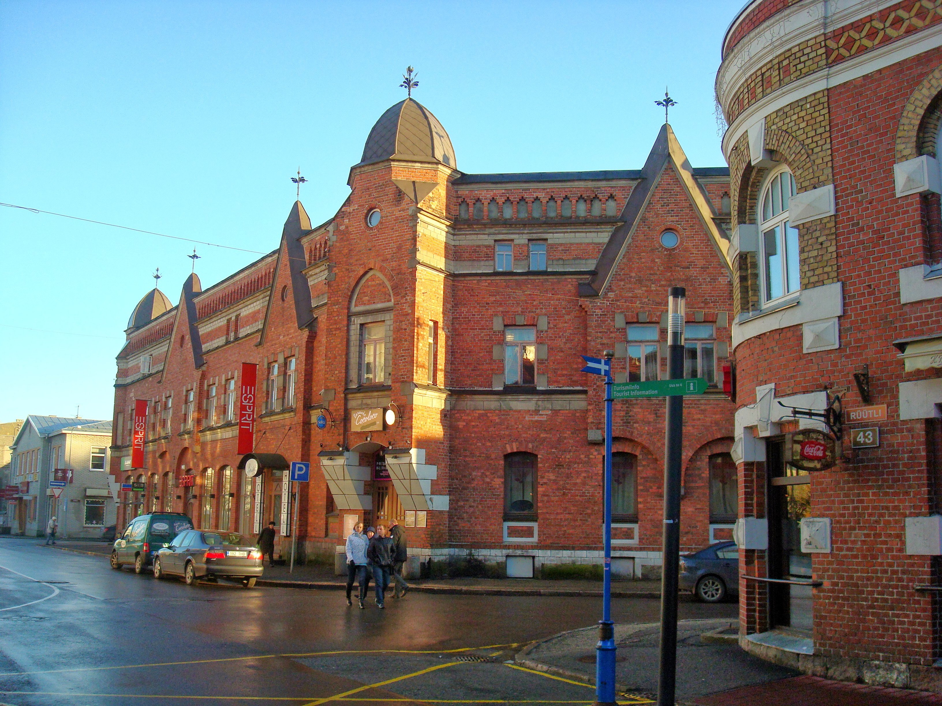 Pärnu, Pärnu County, Estonia